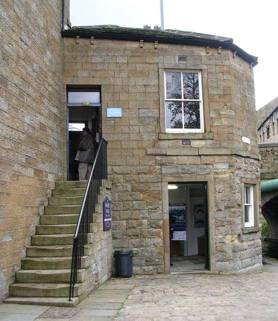 Toll House - Weavers' Triangle - Leeds/Liverpool Canal